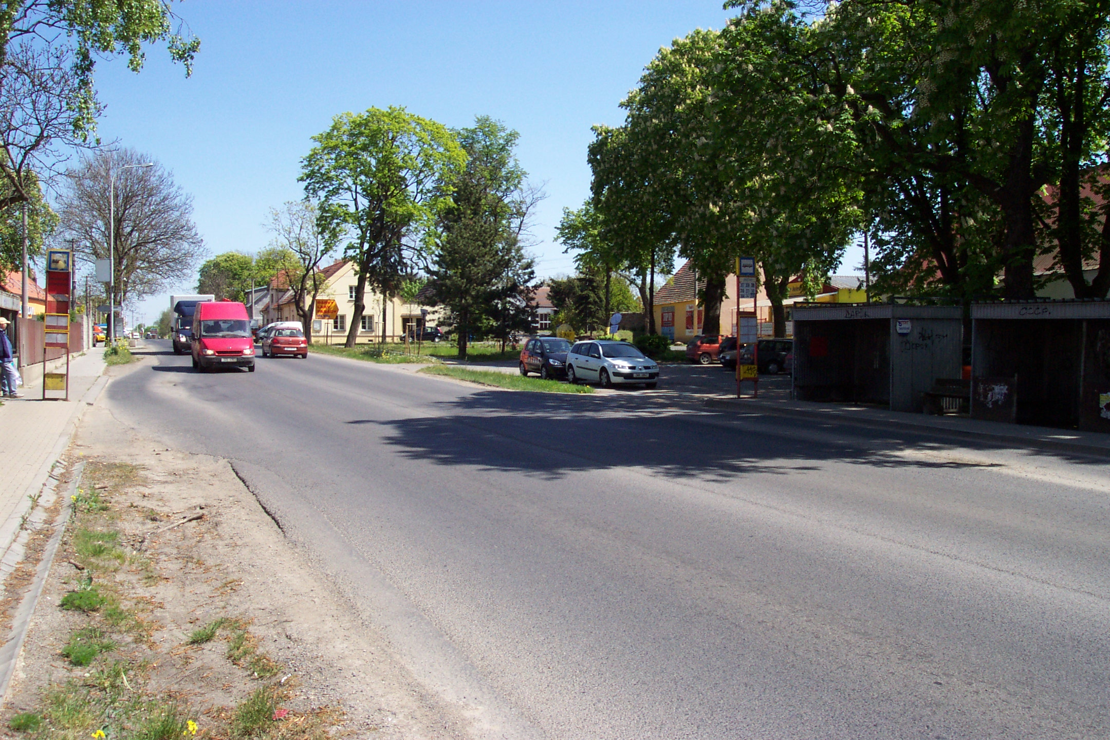 Chrášťany, village near Prague (Prague-West District), the main road